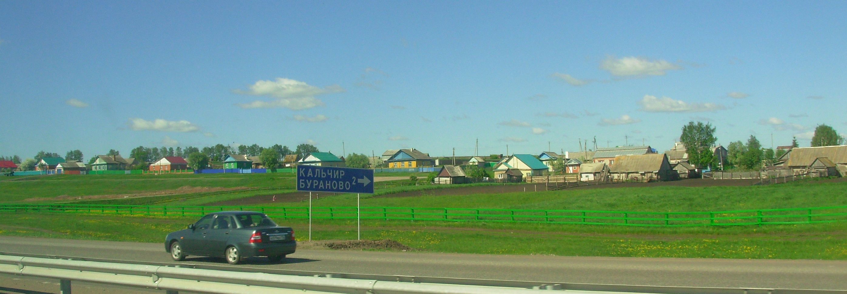 Bashkortostan 2013